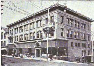 The Shelden-Dee Block c. 1900 — in Houghton, upper Michigan. Now within the Shelden Avenue Historic District